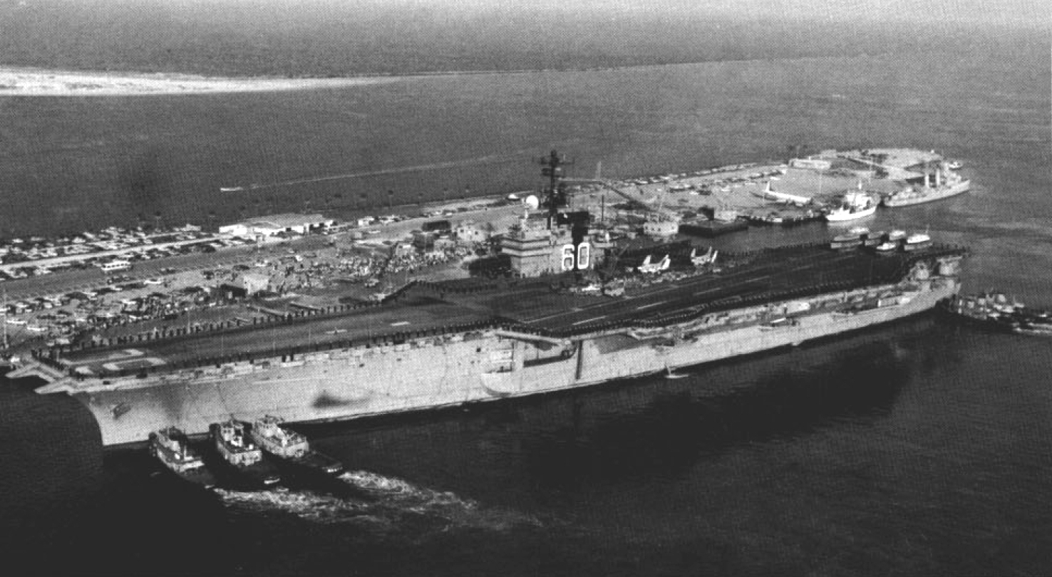 U.S. Navy tugs manuever the aircraft carrier USS Saratoga (CVA-60) into her berth at Mayport, Florida (USA), circa 1971. Note the old World War II-destroyer (?) moored at the pier.